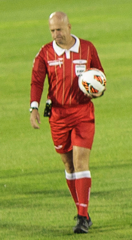 Brazilian international referee, Heber Lopes, before the start of the group phase game between Peñarol and Vélez Sarsfield in the Centenario stadium in Montevideo, Uruguay.